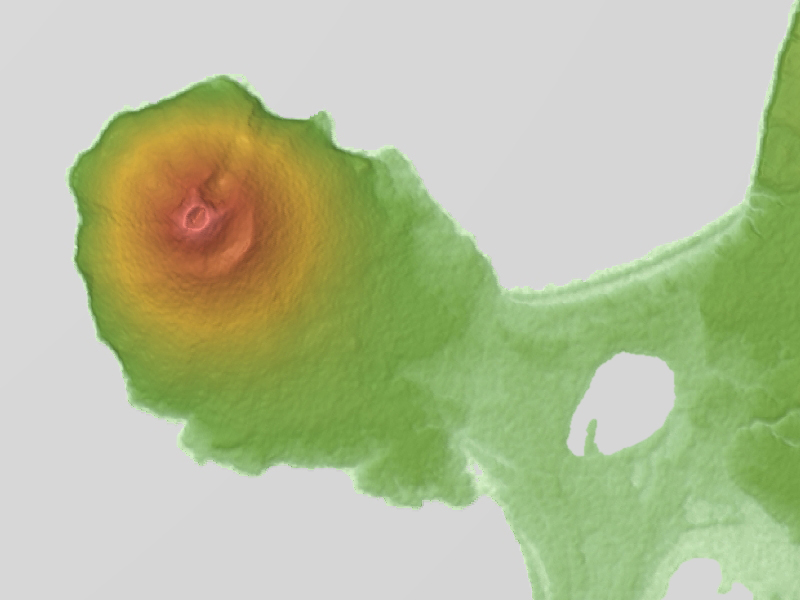 Atsonupuri is a volcano in Iturup,Kuril Islands, Russia.